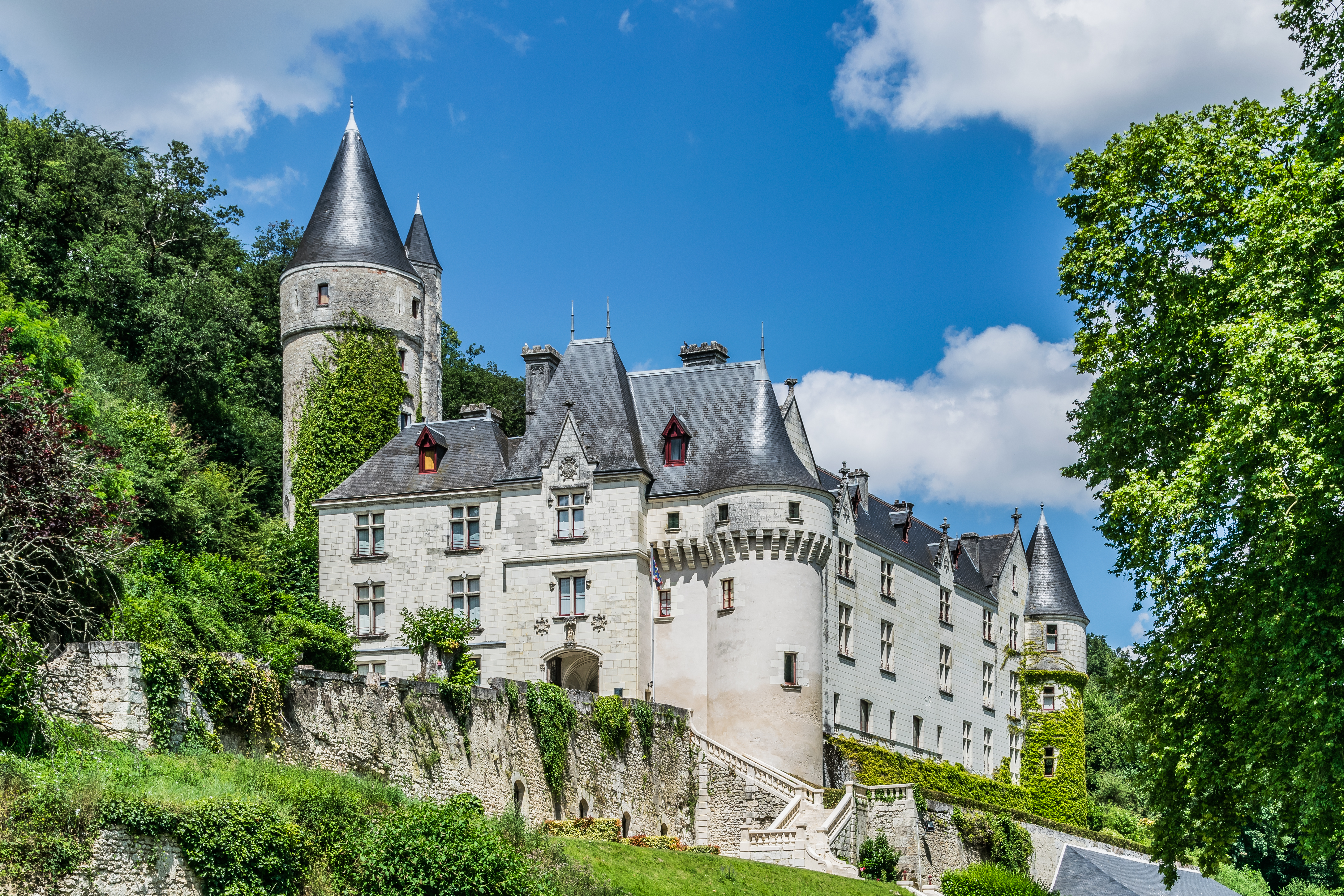 Castle of Chissay-en-Touraine, Loir-et-Cher, France